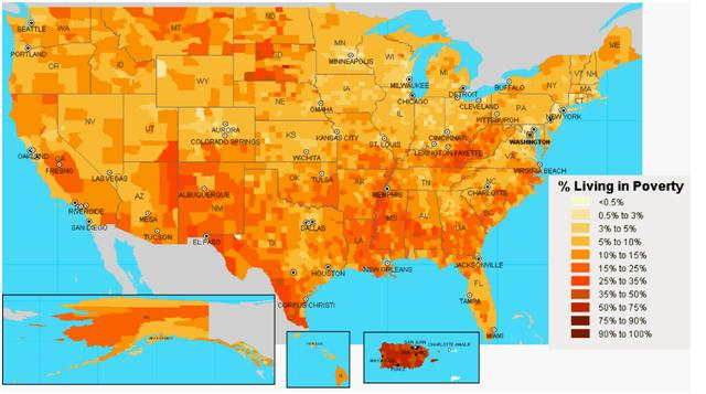 US Census map of poverty across US